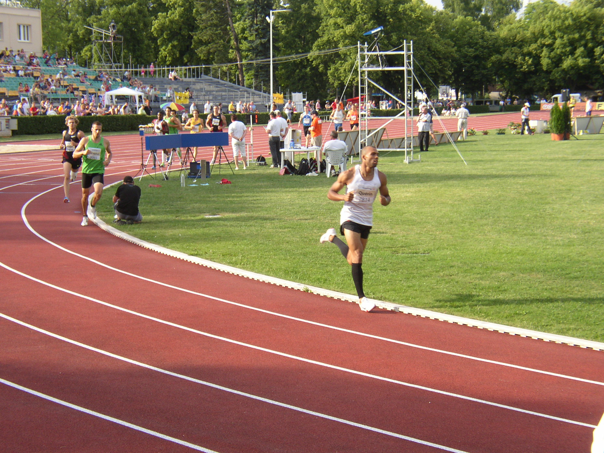 Athletes leading in second lap of second 1500m run, closing event of men's decathlon at 5th edition of the TNT - Fortuna Meeting (IAAF World Combined Events Challenge Meeting, Sletiště Stadium, Kladno, Czech Republic, 16 June 2011, 18:24). in foreground (right to left): Gaël Quérin (FRA) Hans Van Alphen (BEL) Kevin Mayer (FRA)